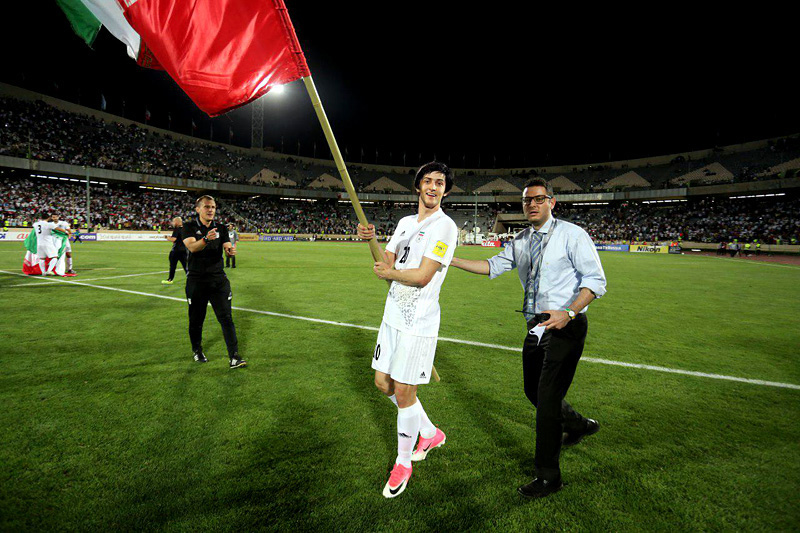 Sardar Azmoun and Iman Farzin at 2018 FIFA World Cup Asian Qualifiers - Tehran